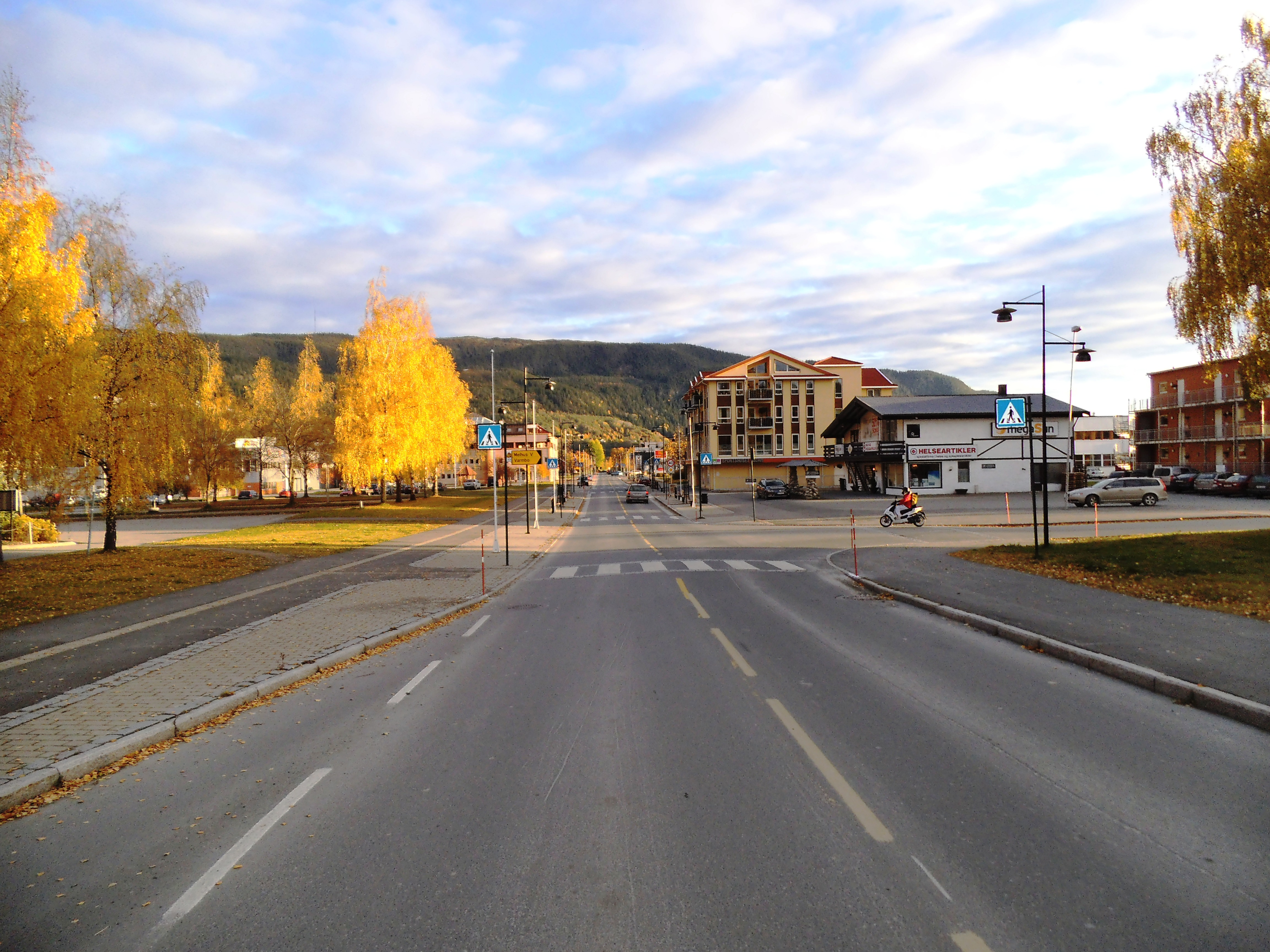 Main street in Melhus